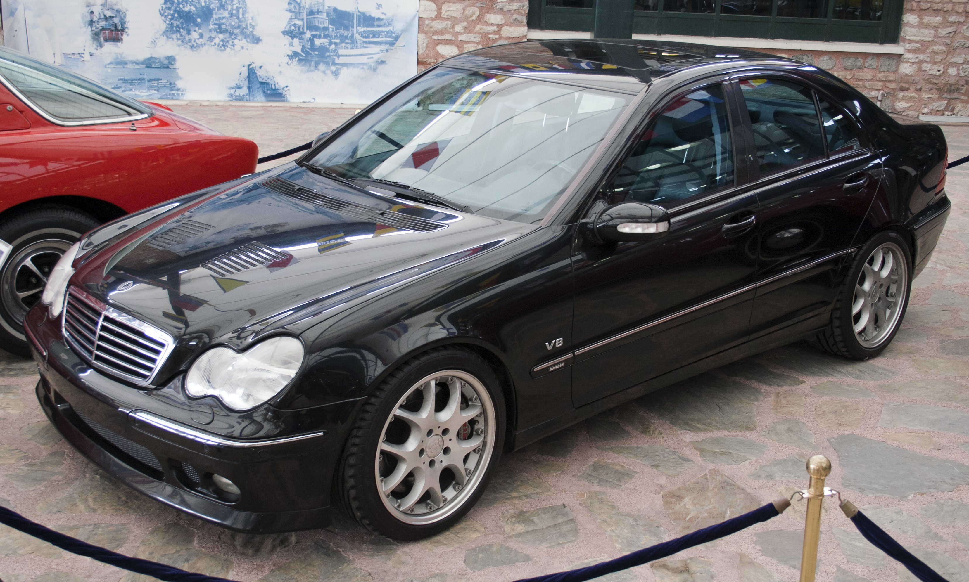 A 2001 Brabus C V8 at the Rahmi M. Koç Museum of Transportation. 5.8 litre V8, 400PS, 320km/h top speed, 0-100km/h in 4 seconds flat.